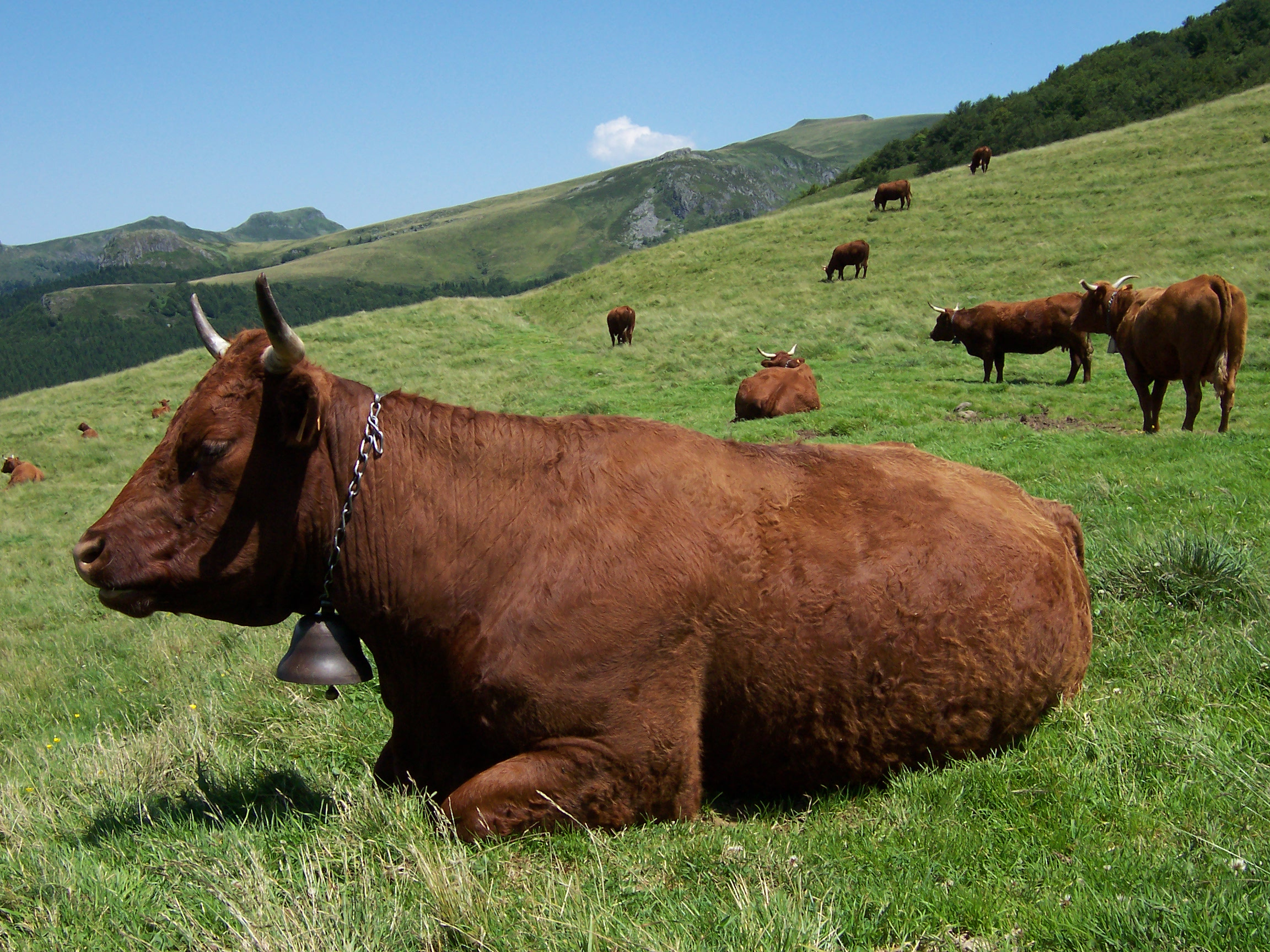 Salers breed cow in the Monts du Cantal mountains